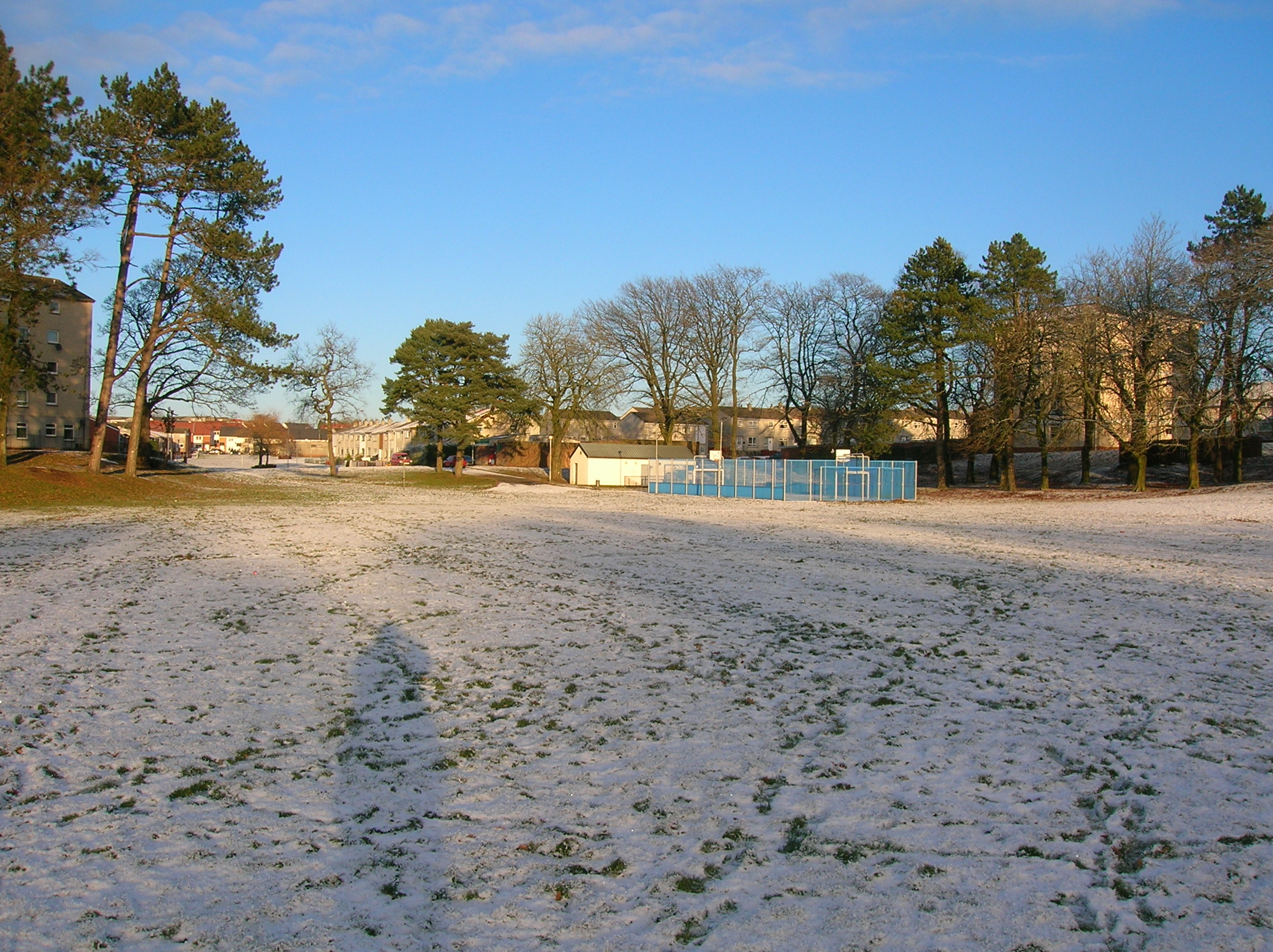 Newfarm Loch looking from the north-east. Kilmarnock, East Ayrshire, Scotland.